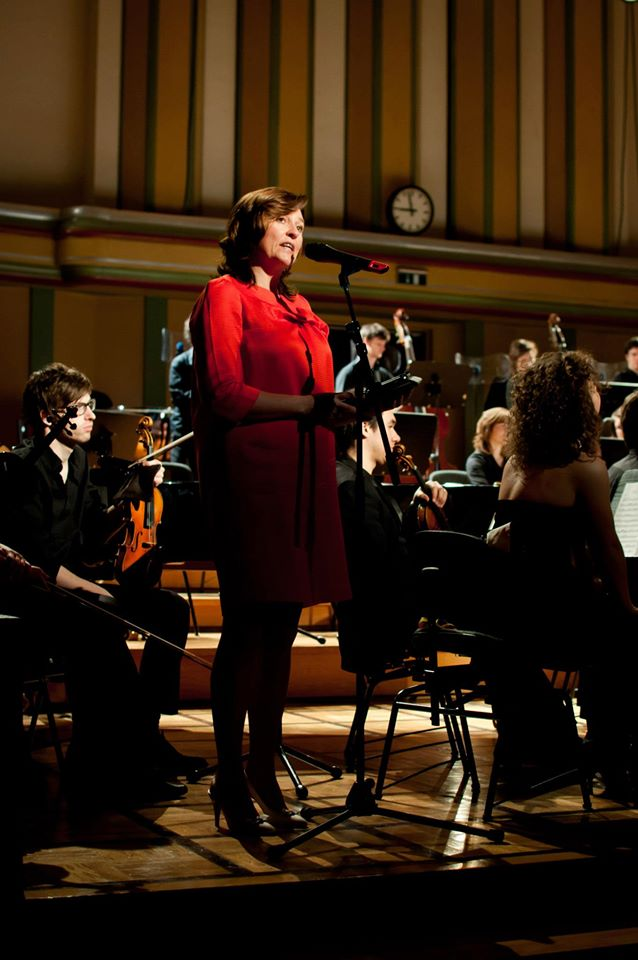 Katelijne Boon als presentatrice bij een concert van Frascati Symphonic in Flagey.